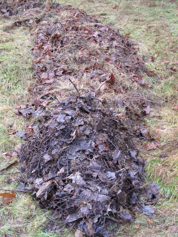 The end of the spiral bed